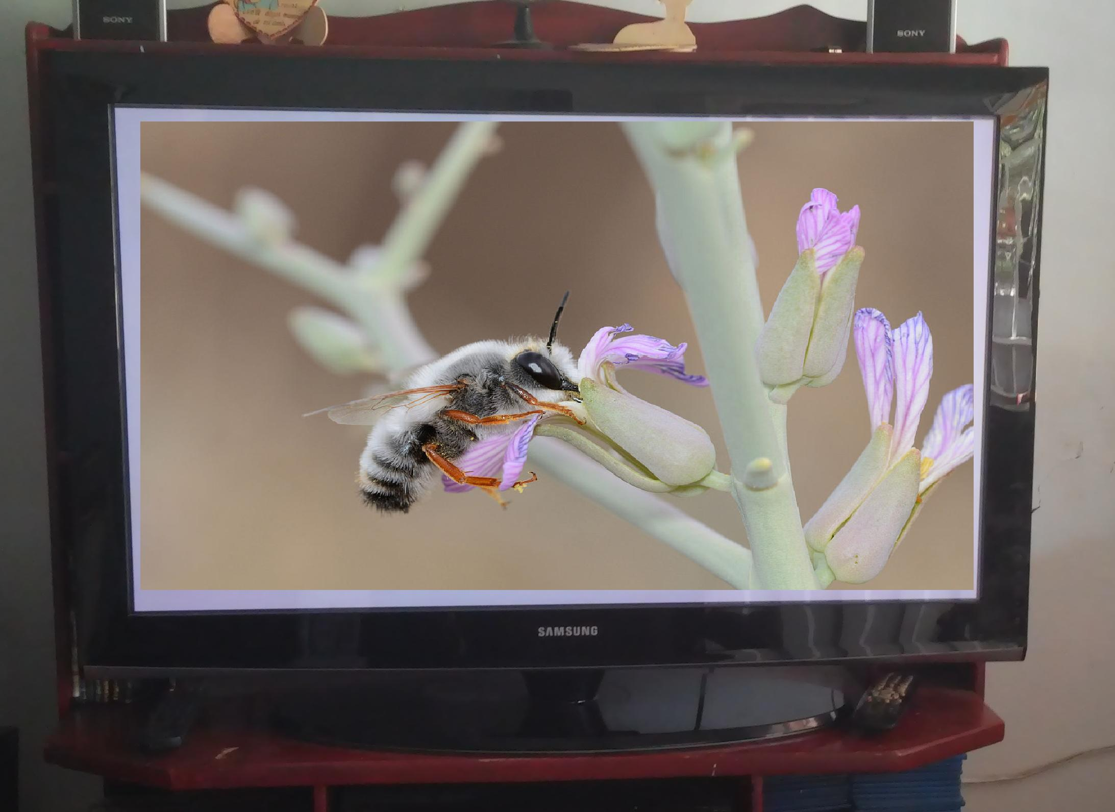 Samsung plasma tv 42